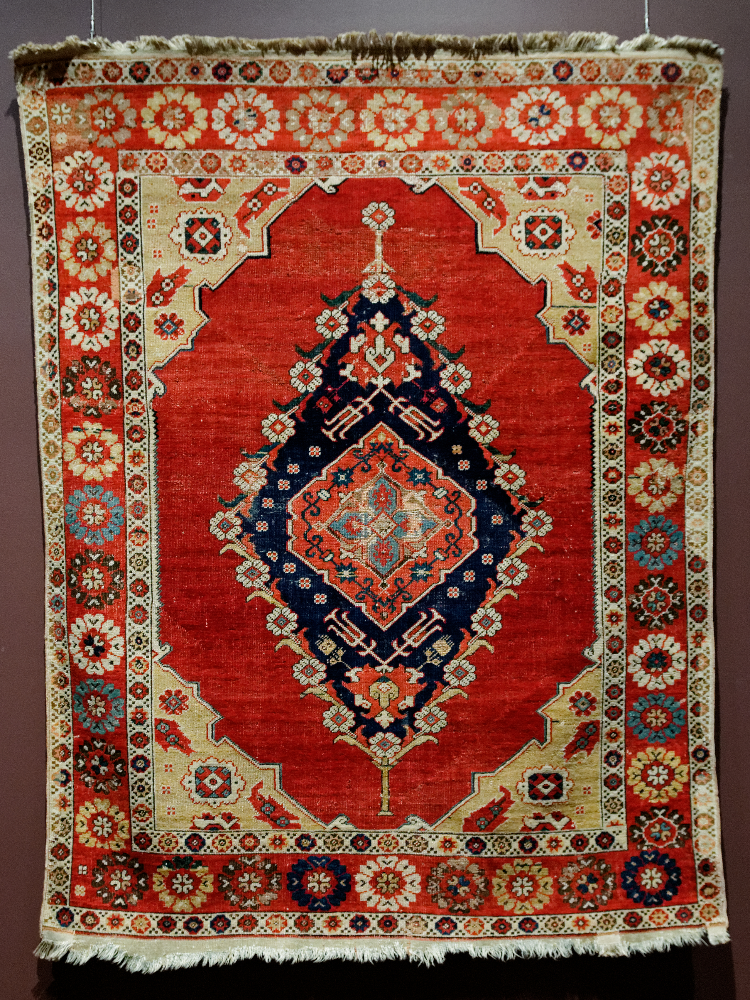 'Transylvanian' carpet.